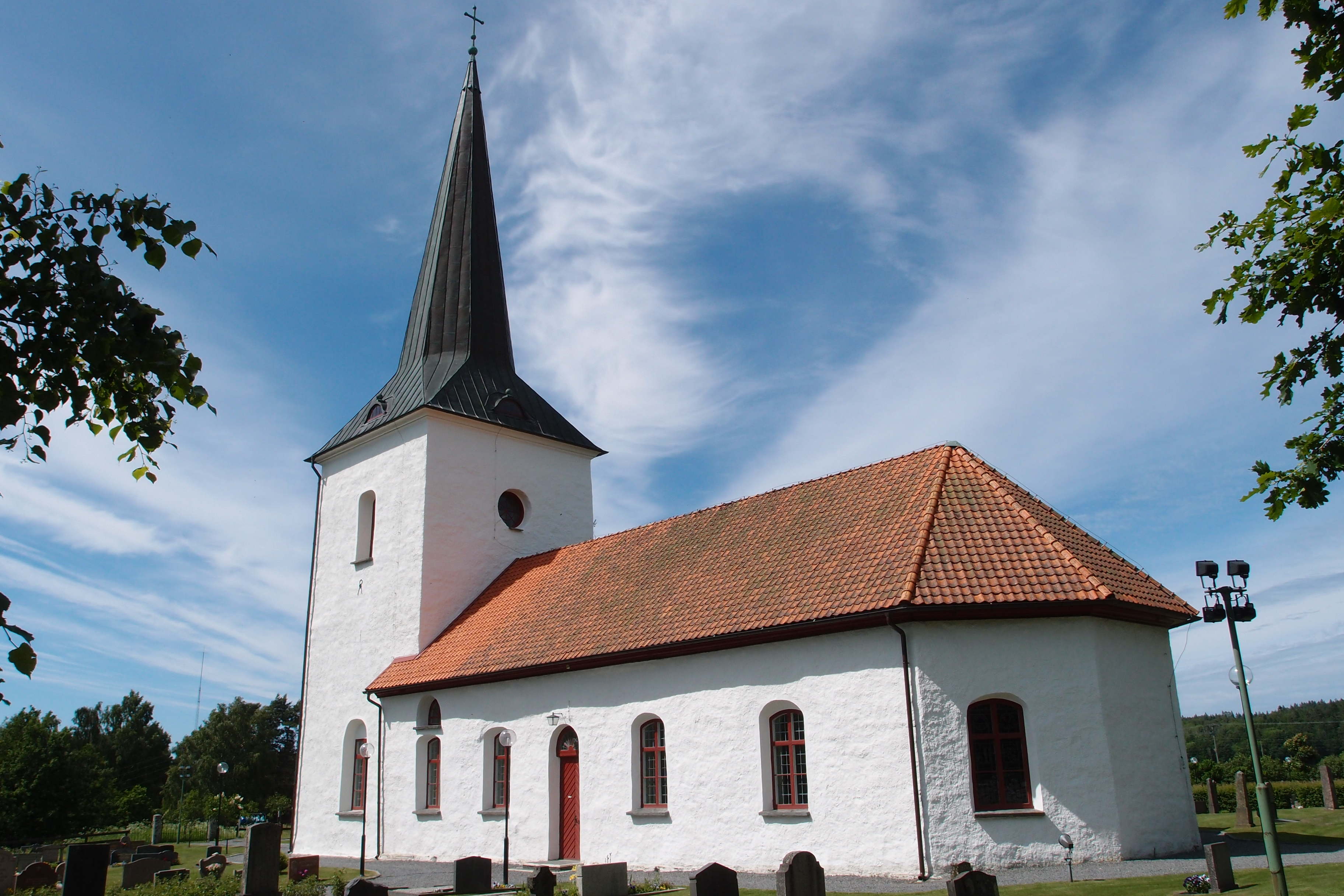 Öxnevalla Church